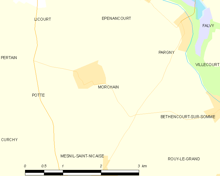 Map of French municipality Morchain